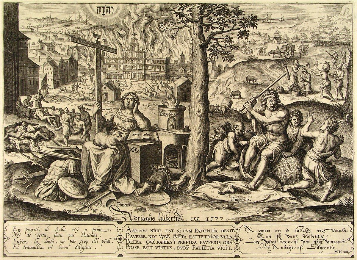 The 'Spanish Fury', the destruction of Antwerp in 1576 by Spanish troopslabel QS:Len,"The 'Spanish Fury', the destruction of Antwerp in 1576 by Spanish troops" label QS:Lnl,"De Spaanse Furie (De verwoesting van Antwerpen 1577)."